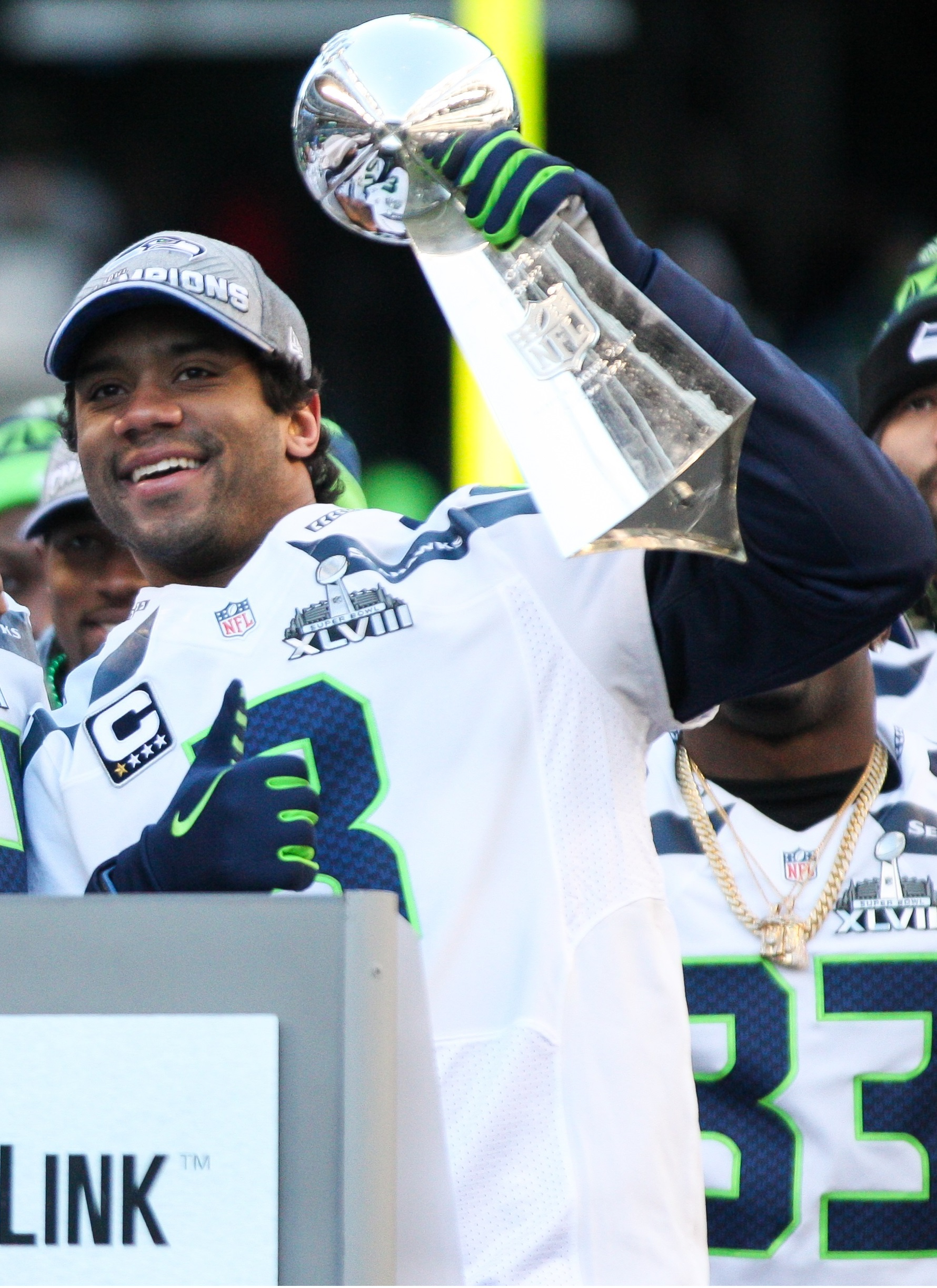 Russell Wilson celebrating the Super Bowl XLVIII victory at the CenturyLink Field in Seattle, 02.05.2014